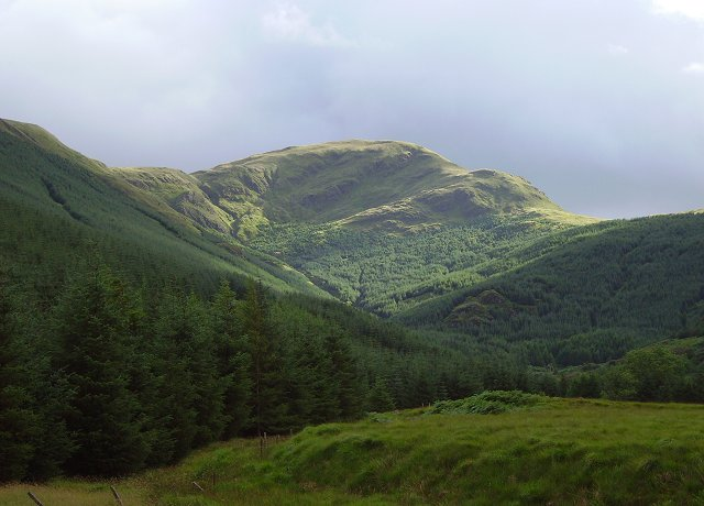 Cruach nan Capull. Cruach nan Capull from near the old farm of Corrachaive in Glen Lean. Steep northern slopes rise out of the forest.